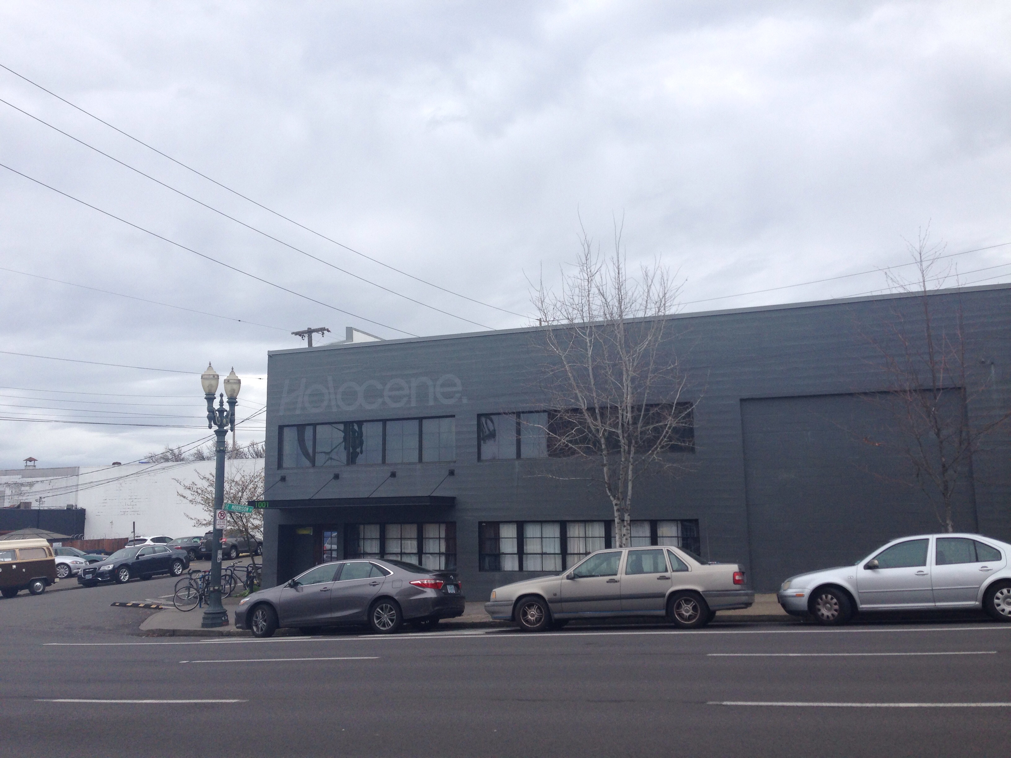 Art and music venue Holocene in portland oregon.